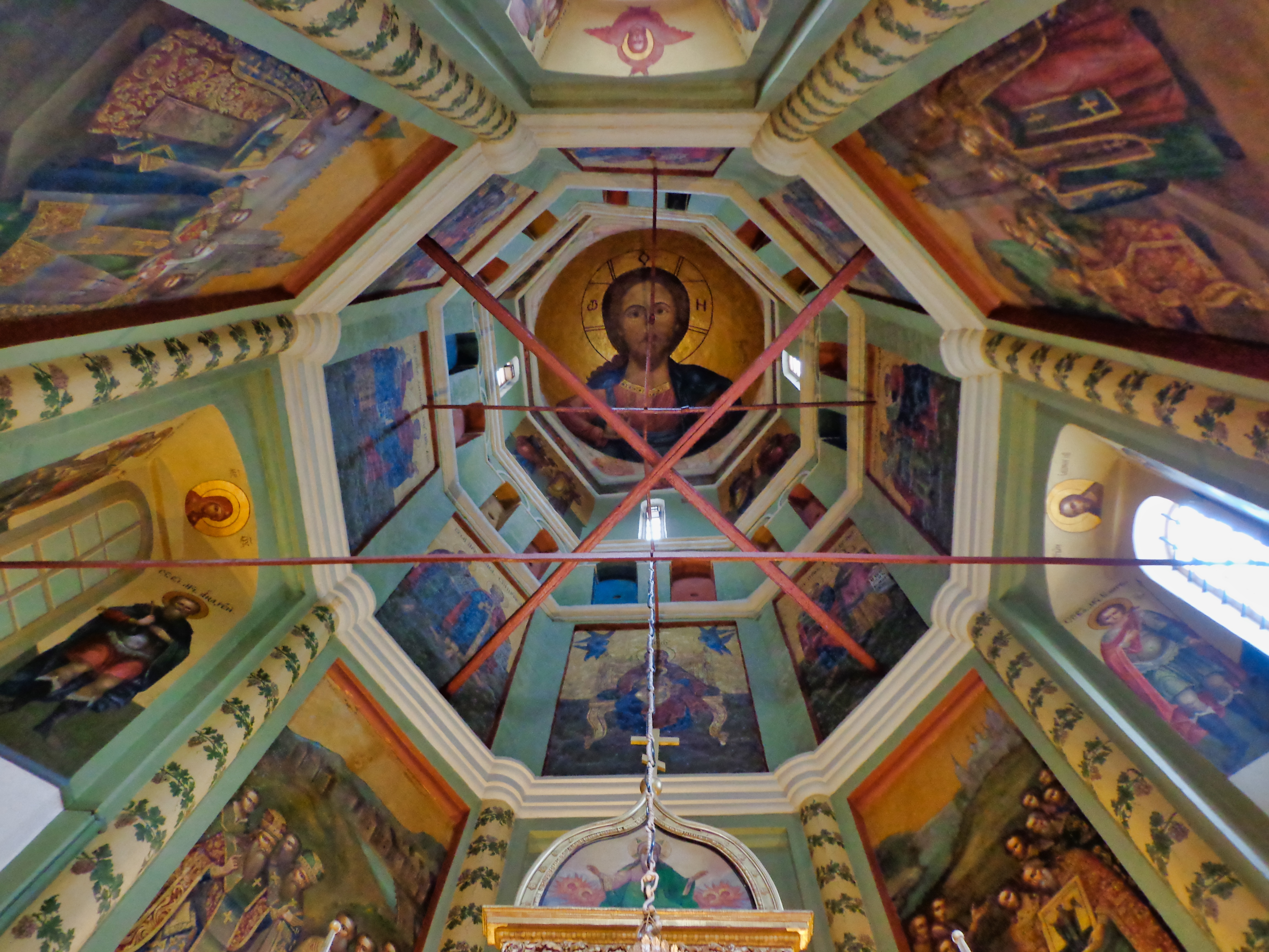 Interior of the south church of Saint Basil's Cathedral in Moscow, dedicated to St. Nicholas Velikoretsky